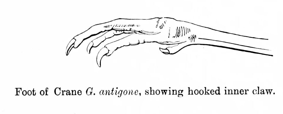 Foot of Grus antigone